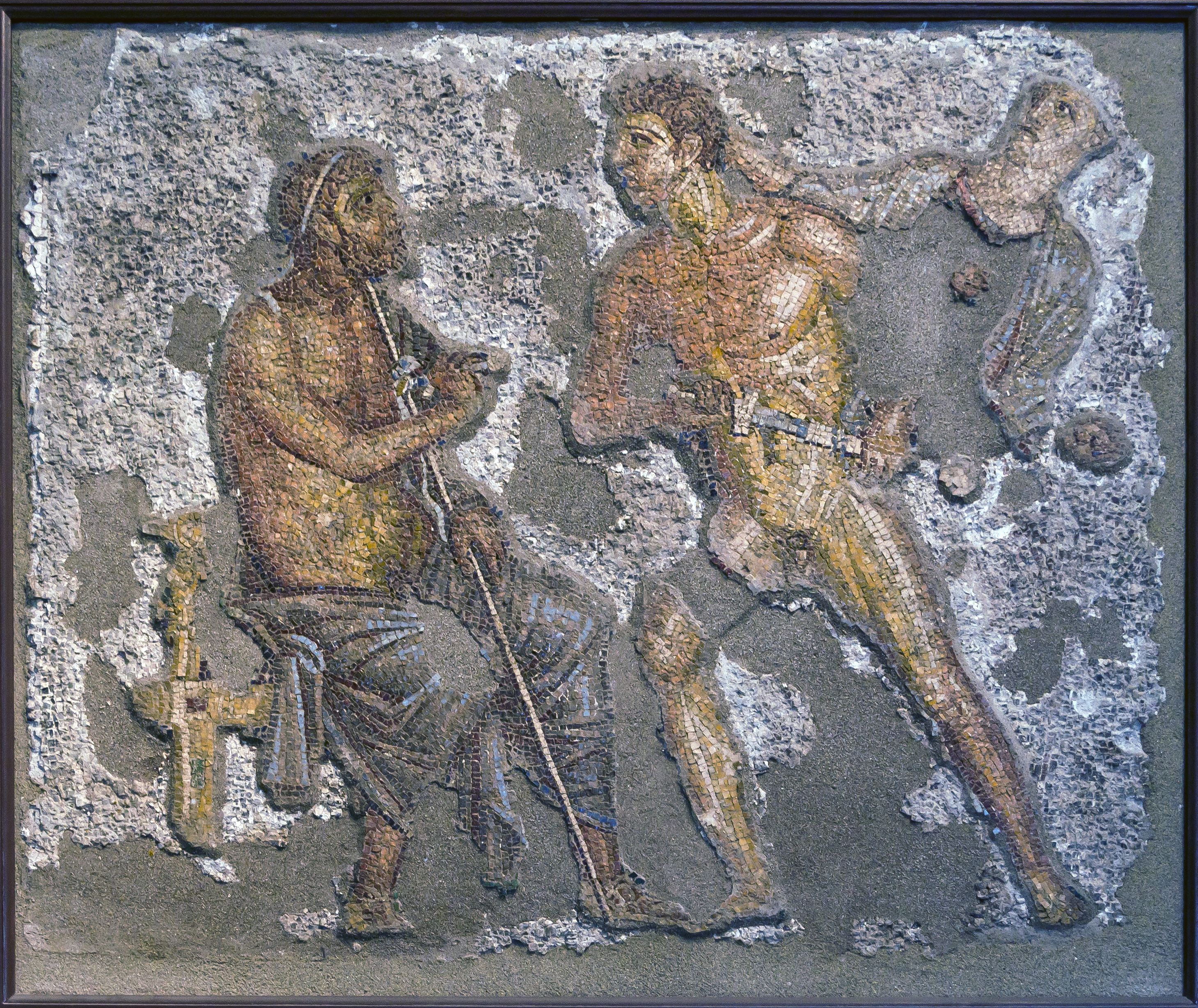 Achilles and Agamemnon, scene from Book I of the Iliad, Roman mosaic.